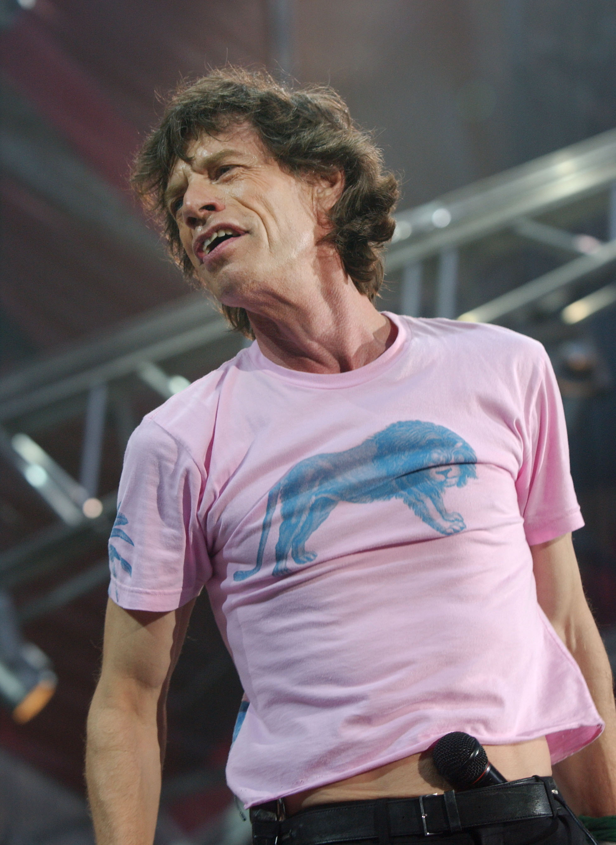 Mick Jagger - The Rolling Stones live at San Siro Stadium, Milan, Italy - june 10th, 2003